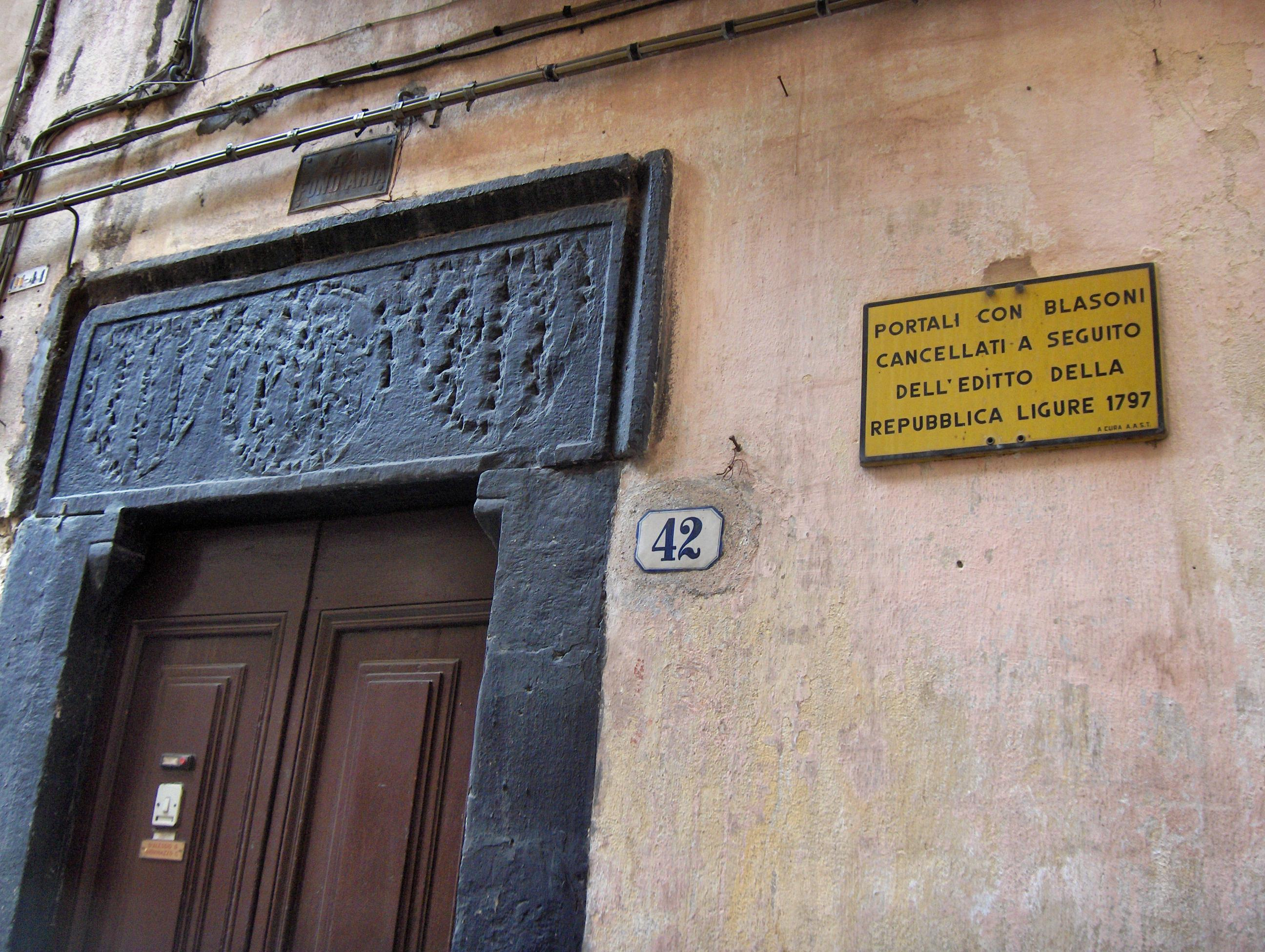 Devastated blason that proclaimed the foundation of the short-lived Ligurian republic (1797); Taggia, Liguria, Italy